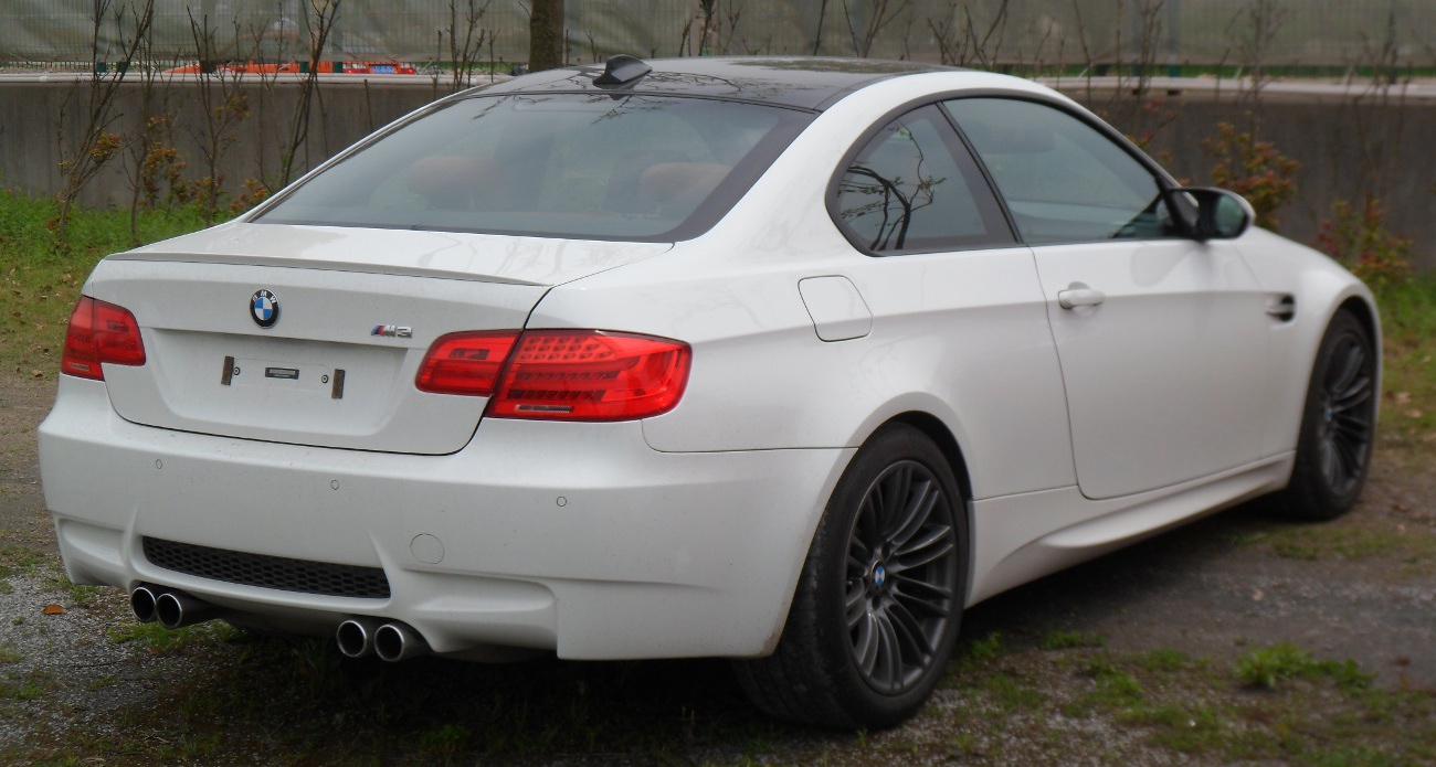 BMW M3 coupe photographed in Anting, Shanghai municipality, China.